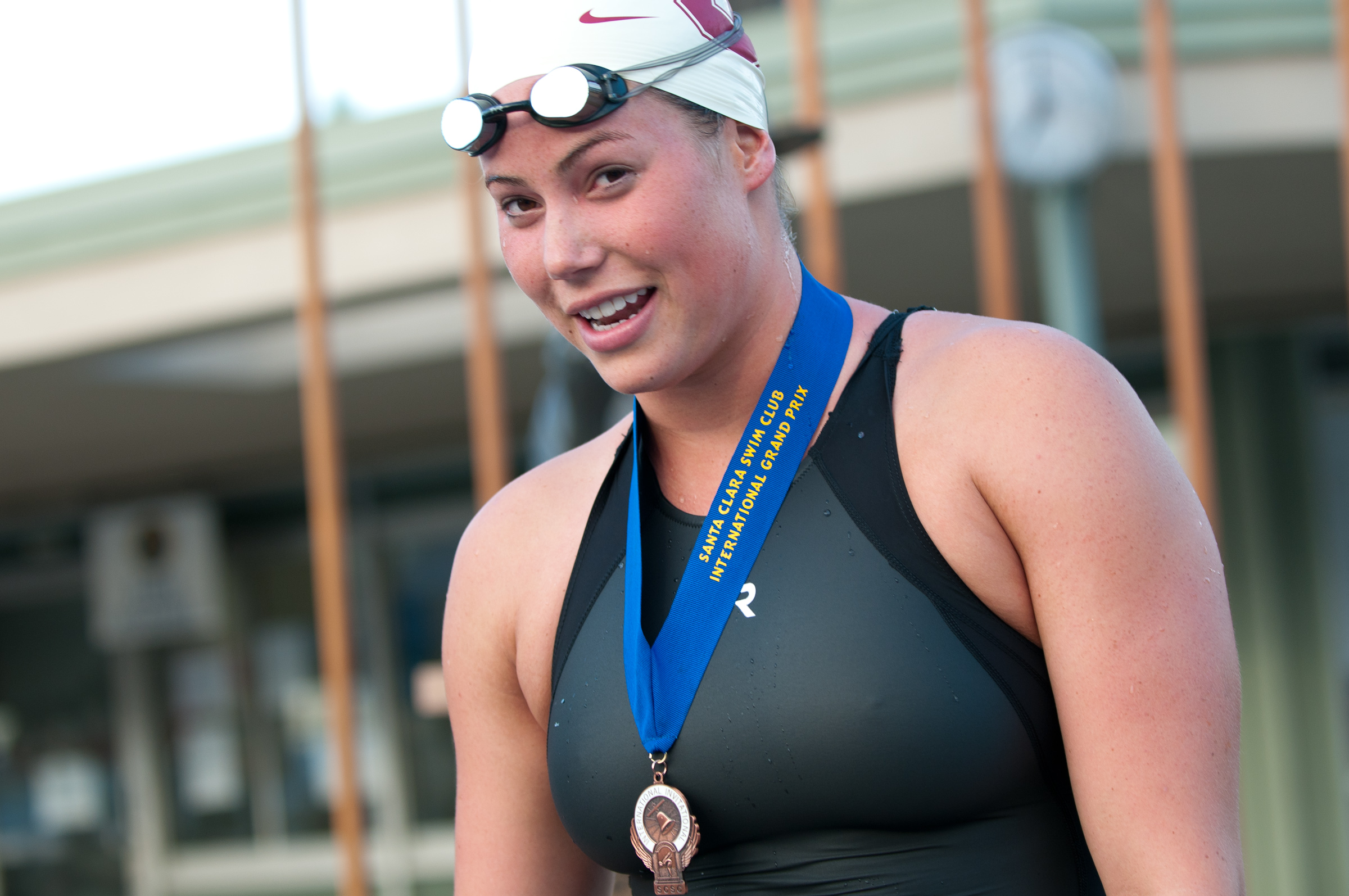 Elaine Breeden at the 2009 Santa Clara Grand Prix. Photo copyright by JD Lasica. for republication rights.